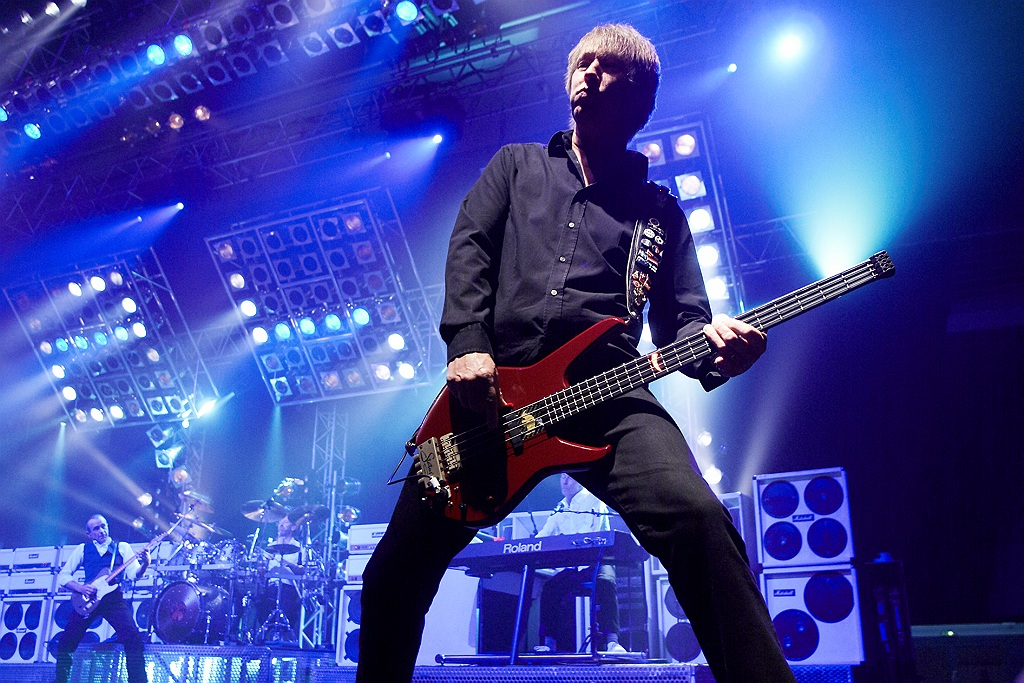 Status Quo @ Classic Rock Festival Hamburg